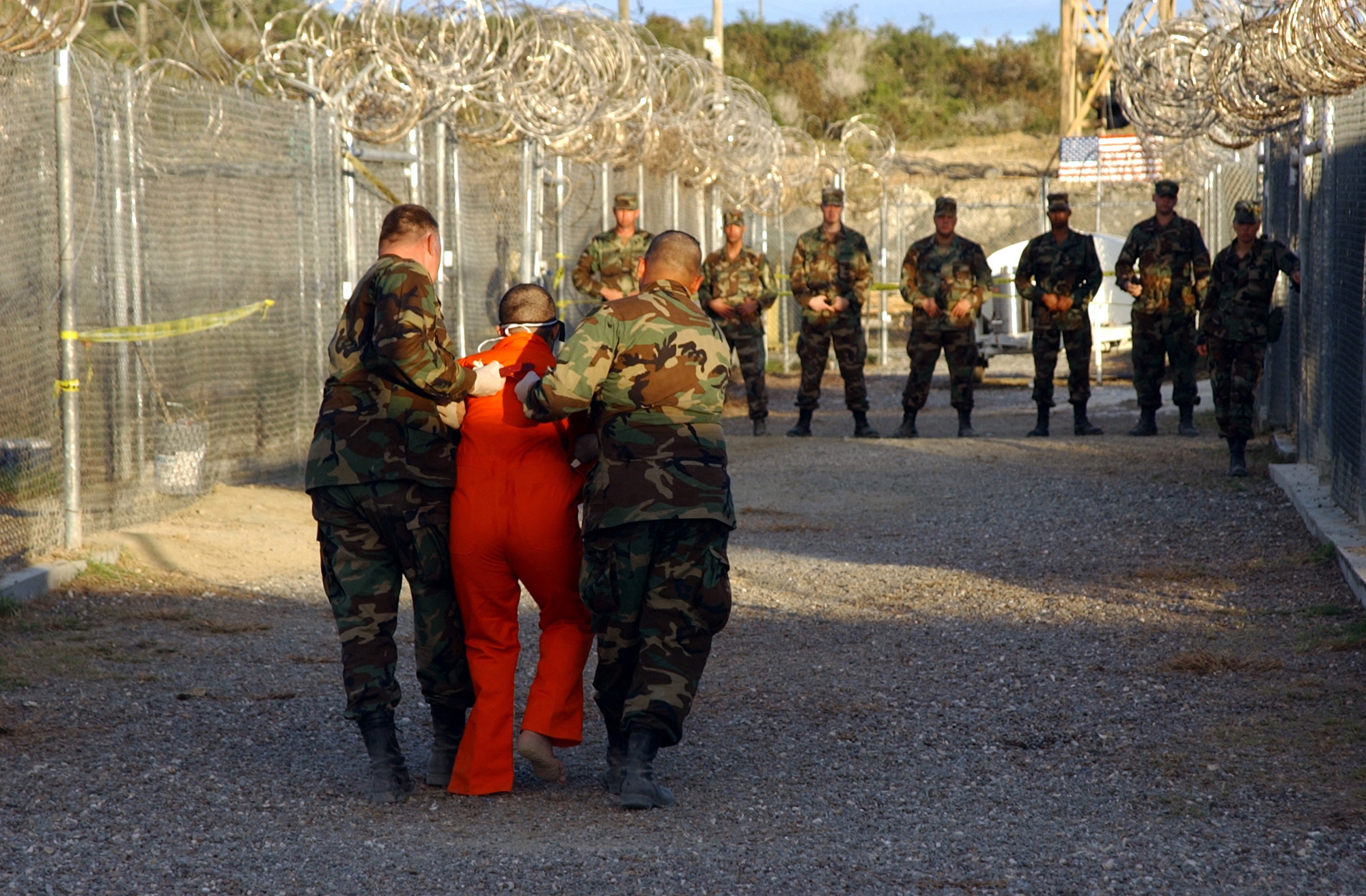 Guantanamo Camp X-Ray. U.S. Army Military Police escort a detainee to his cell in Camp X-Ray at Naval Base Guantanamo Bay, Cuba, during in-processing to the temporary detention facility on Jan. 11, 2002. The detainees are being given a basic physical exam by a doctor, to include a chest x-ray and taken and blood samples drawn to assess their health.